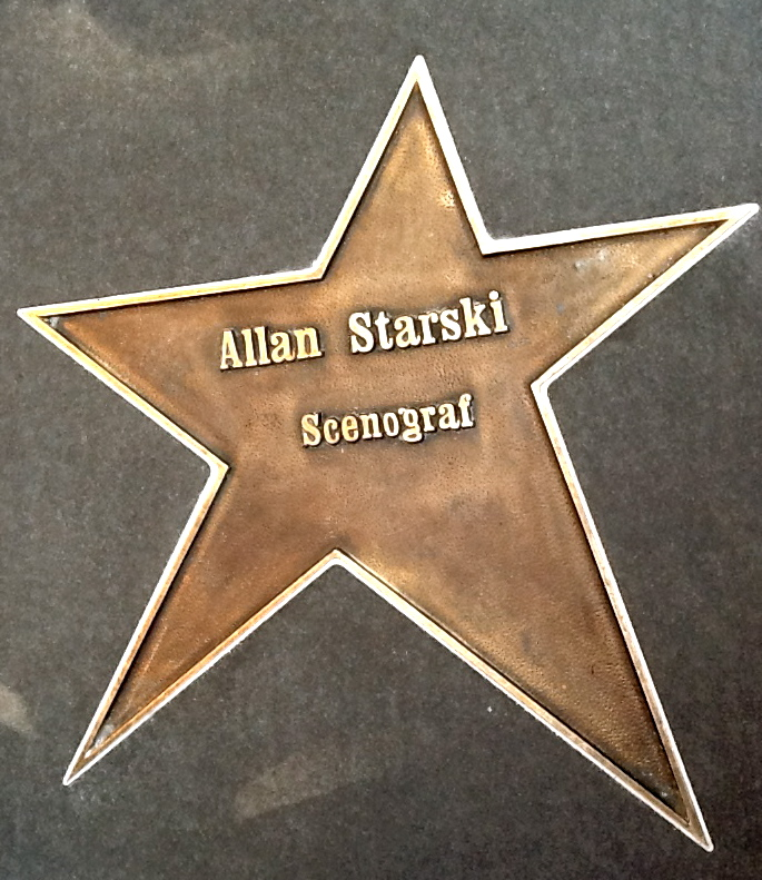 Łódź Walk of Fame - Allan Starski